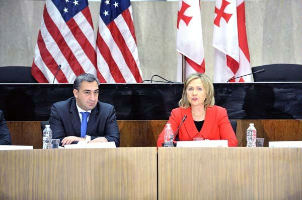 Secretary Clinton speaks at U.S.-Georgia Charter on Strategic Partnership omnibus meeting.